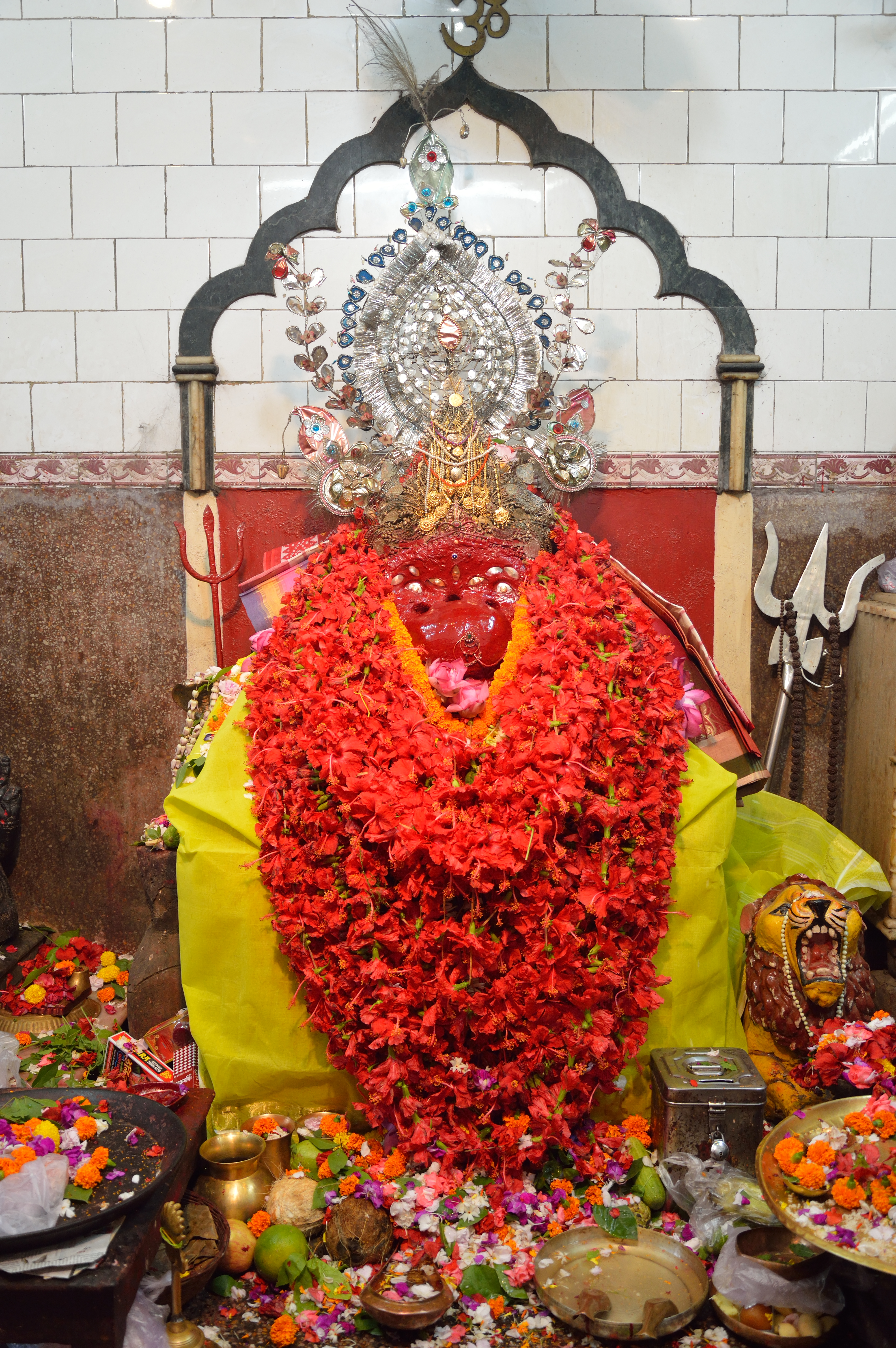 The Batai Chandi (considered an avatar of goddess Durga) is believed 500 years old. It is most regarded goddess in Sibpur or Shibpur, Howrah, India.